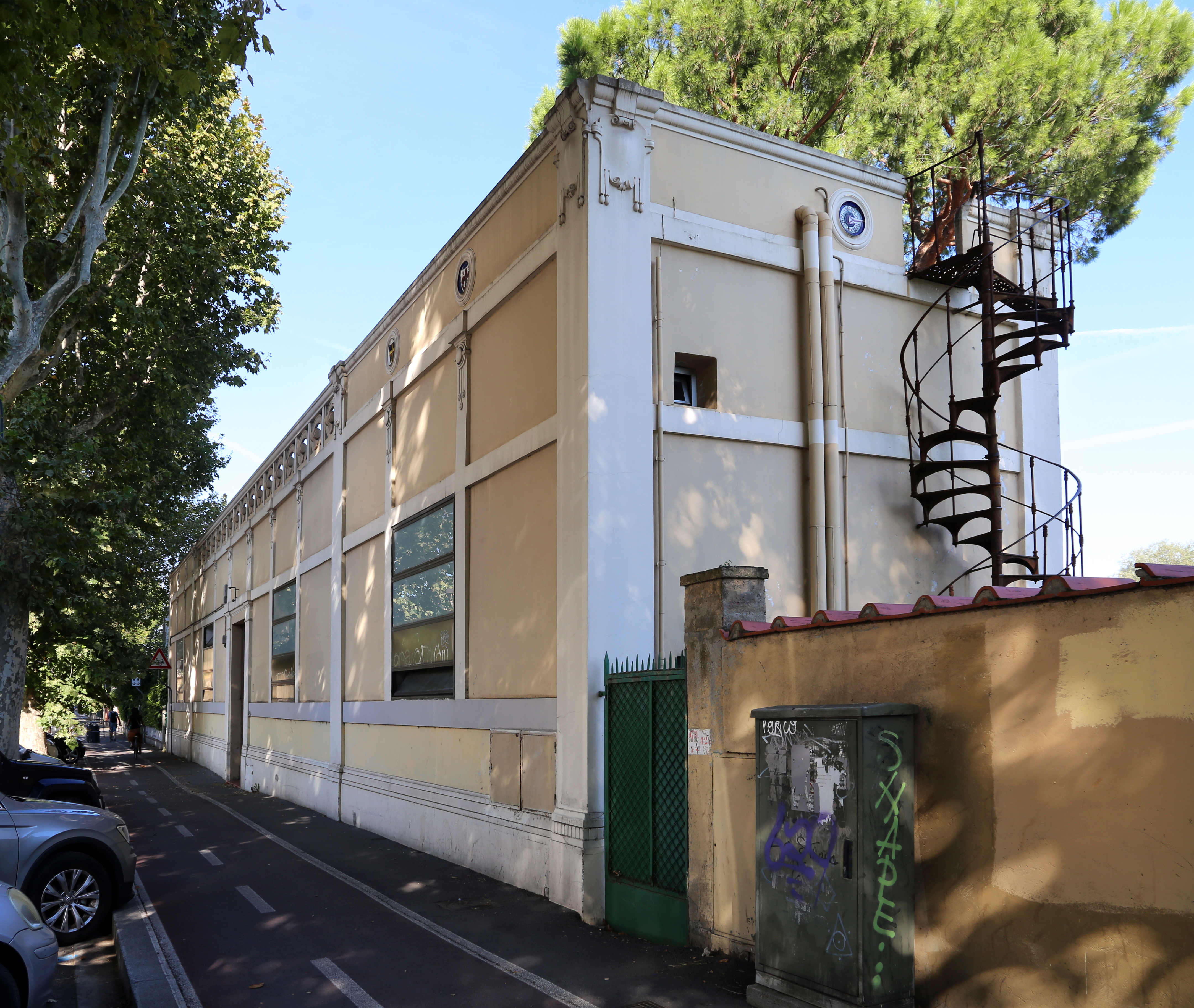 Sede della Rari Nantes Florentia